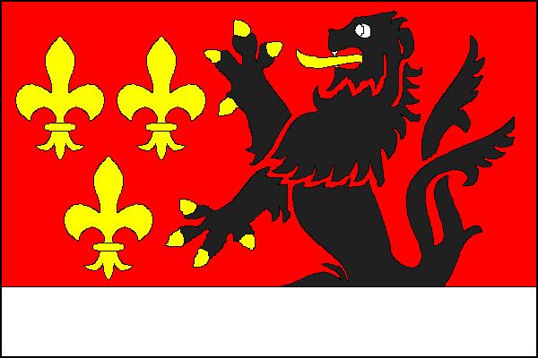 Municipal flag of Branná village, Šumperk District, Czech Republic.